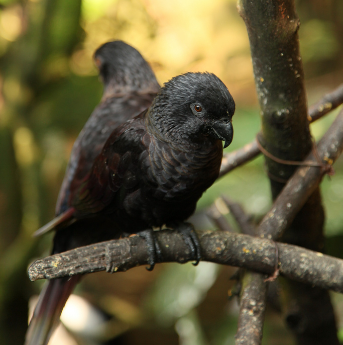 Black Lory; two perching on branches at Taman Safari, Cisarua, Indonesia.